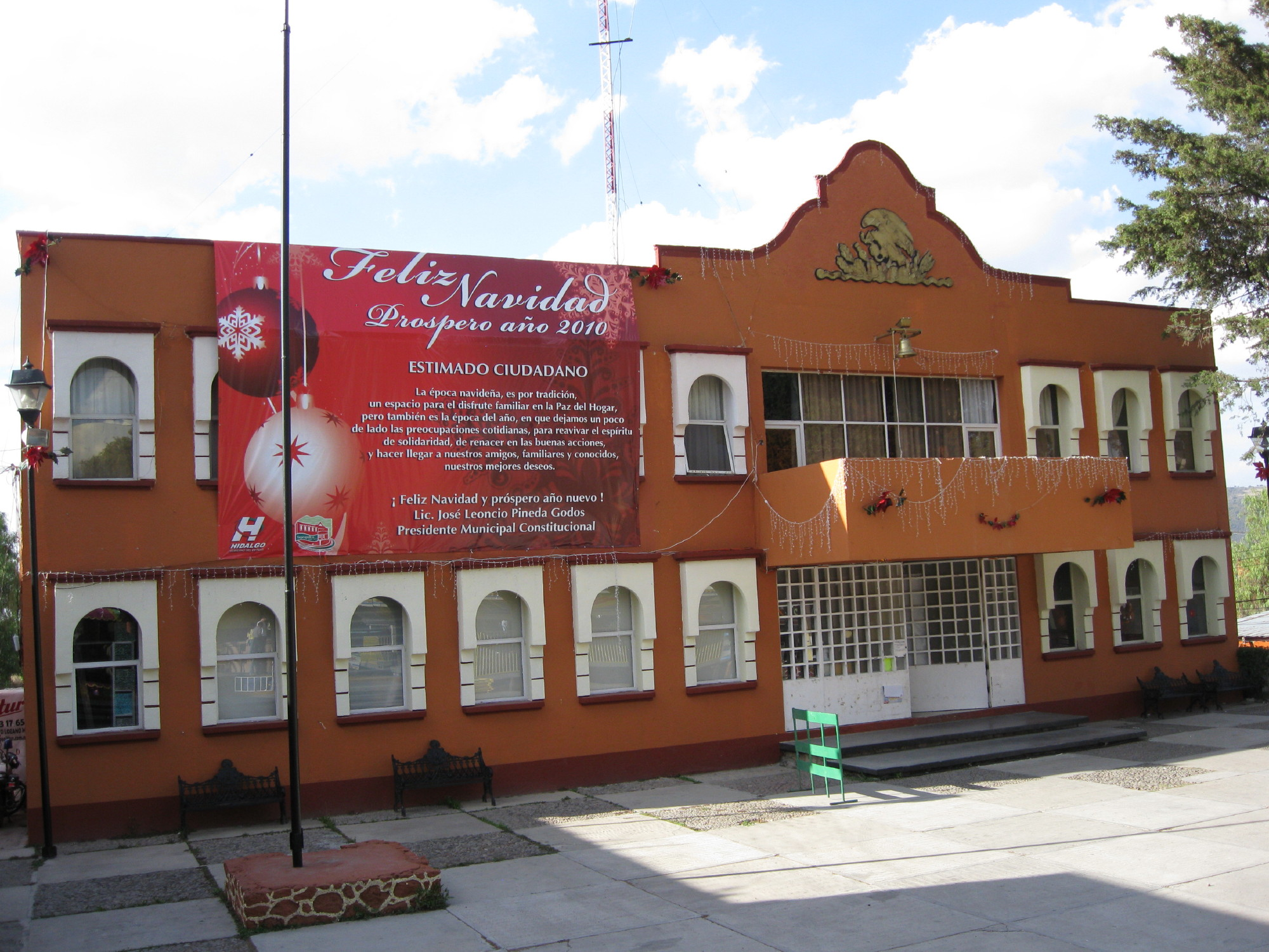 Foto shows Tepeapulco